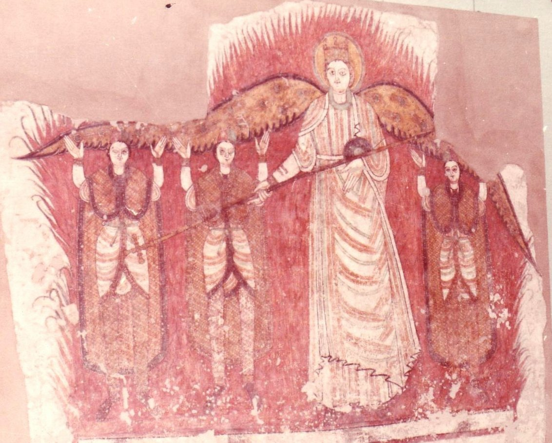 A wall painting from a Nubian church on display at the Khartoum Museum. It depicts the story from Daniel 3 of the three youths thrown into the furnace.